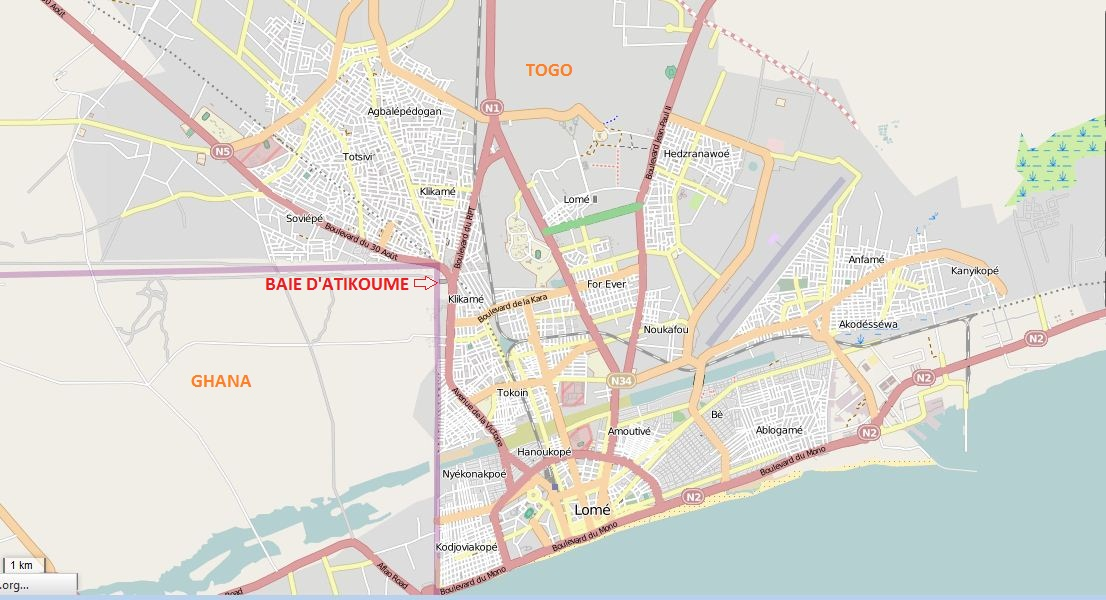 Open Street Map